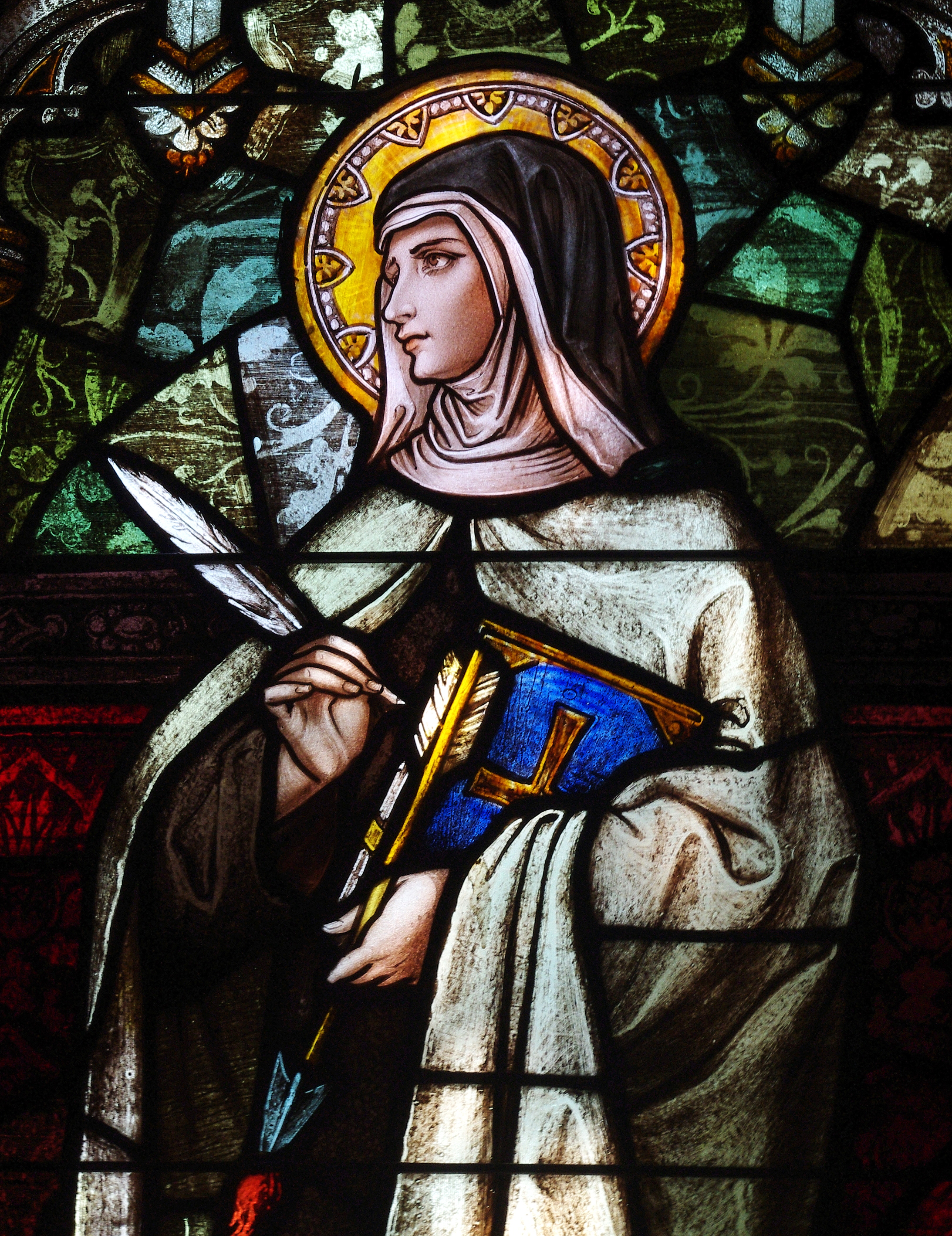 Saint Joseph's Catholic Church (Central City, Kentucky) - stained glass, St. Theresa of Ávila detail